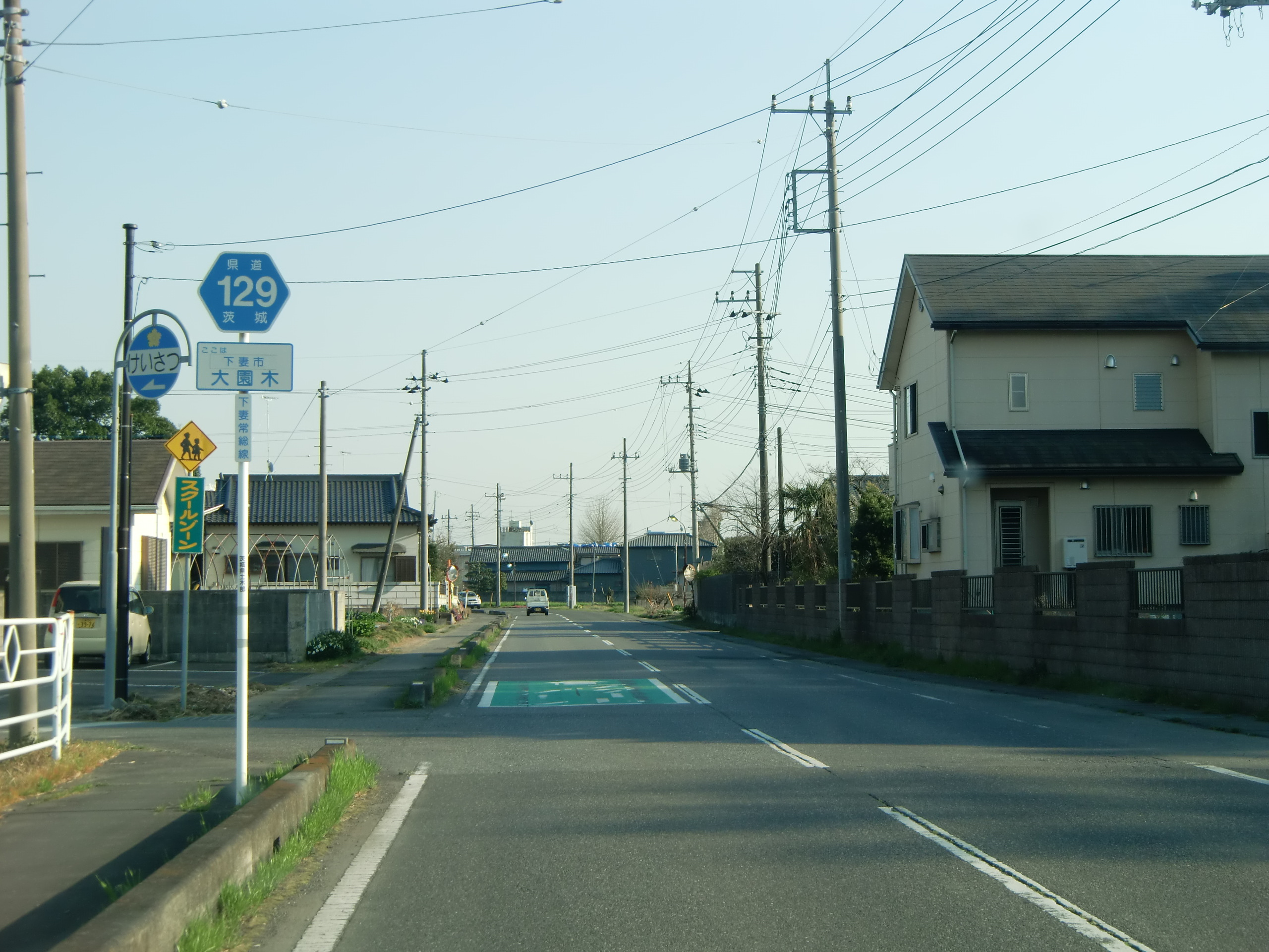 Ibaraki prefectural road 129(Shimotsuma-Jōsō line) in Ōsonoki, Shimotsuma-city, Ibaraki, Japan.